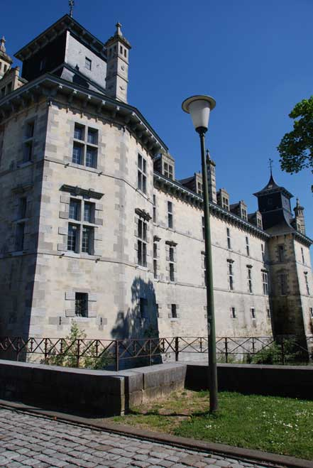 Oud-Rekem, village Belgium